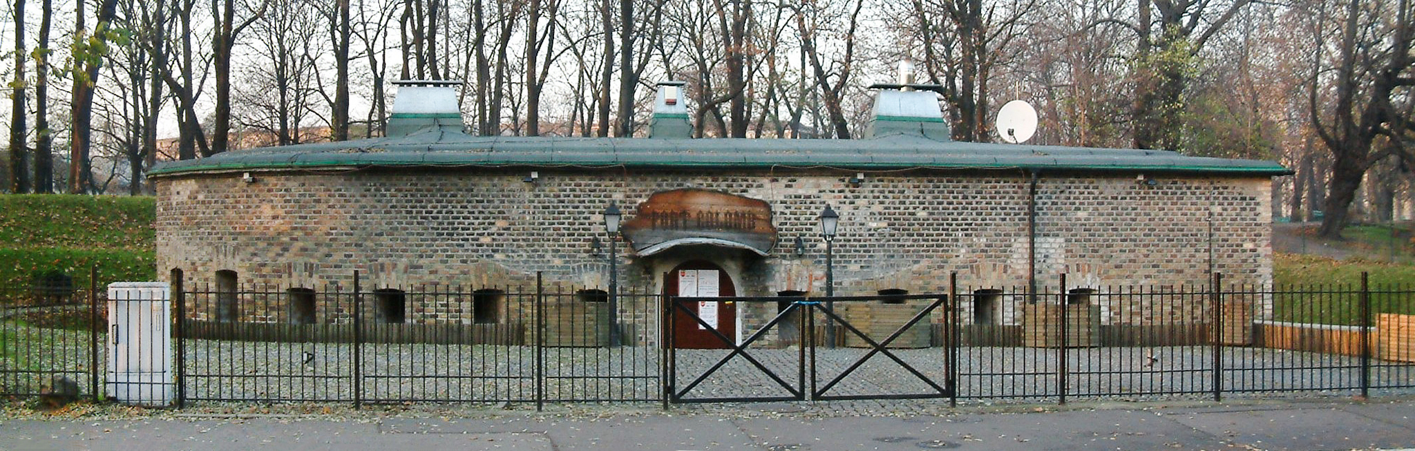 Old Fort Colomb in Poznań